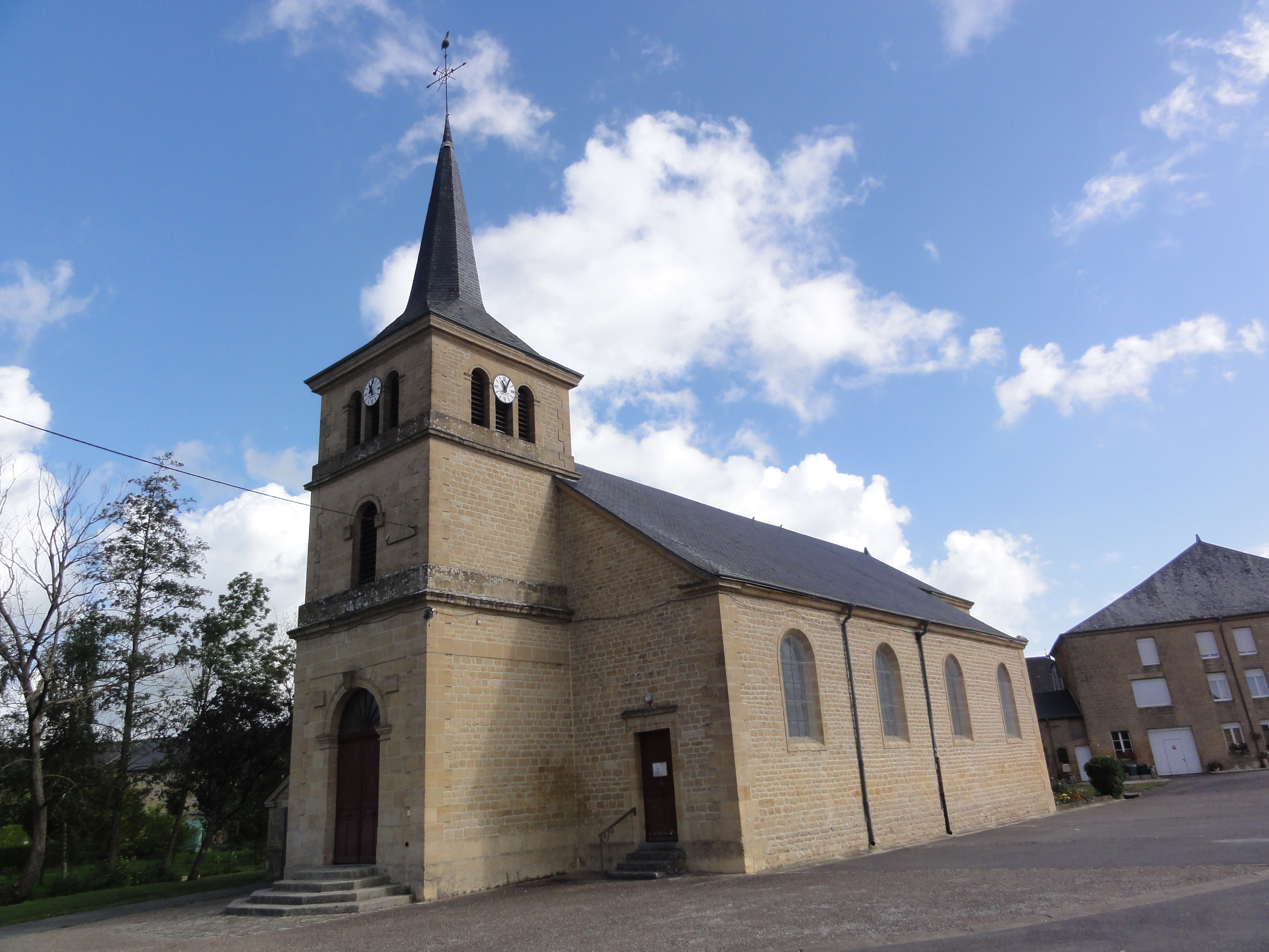 Clavy-Warby (Ardennes) église de Clavy, façade